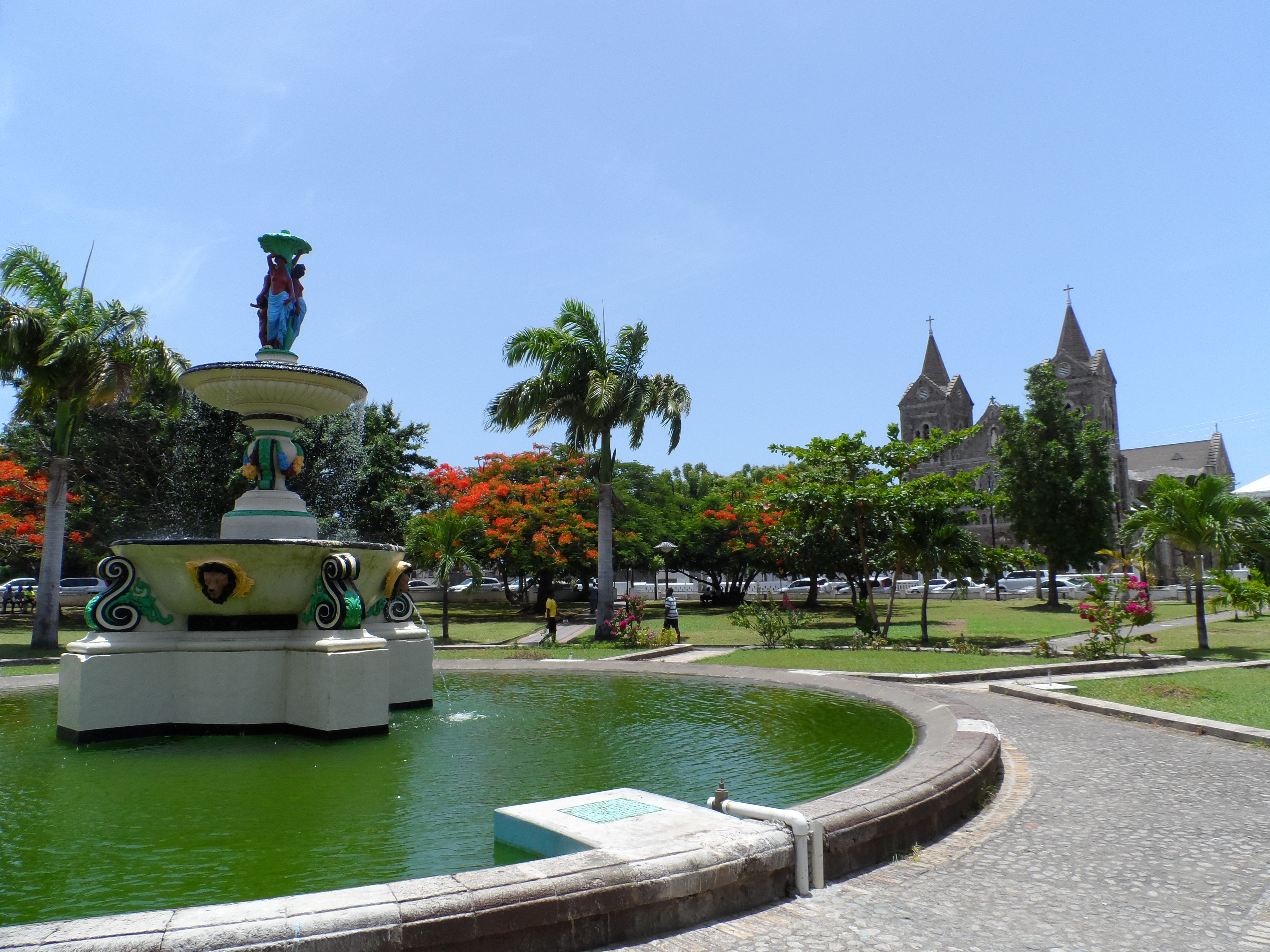 Independence Square with fountain and Basseterre Co-Cathedral of Immaculate Conception in Basseterre, Saint Kitts and Nevis